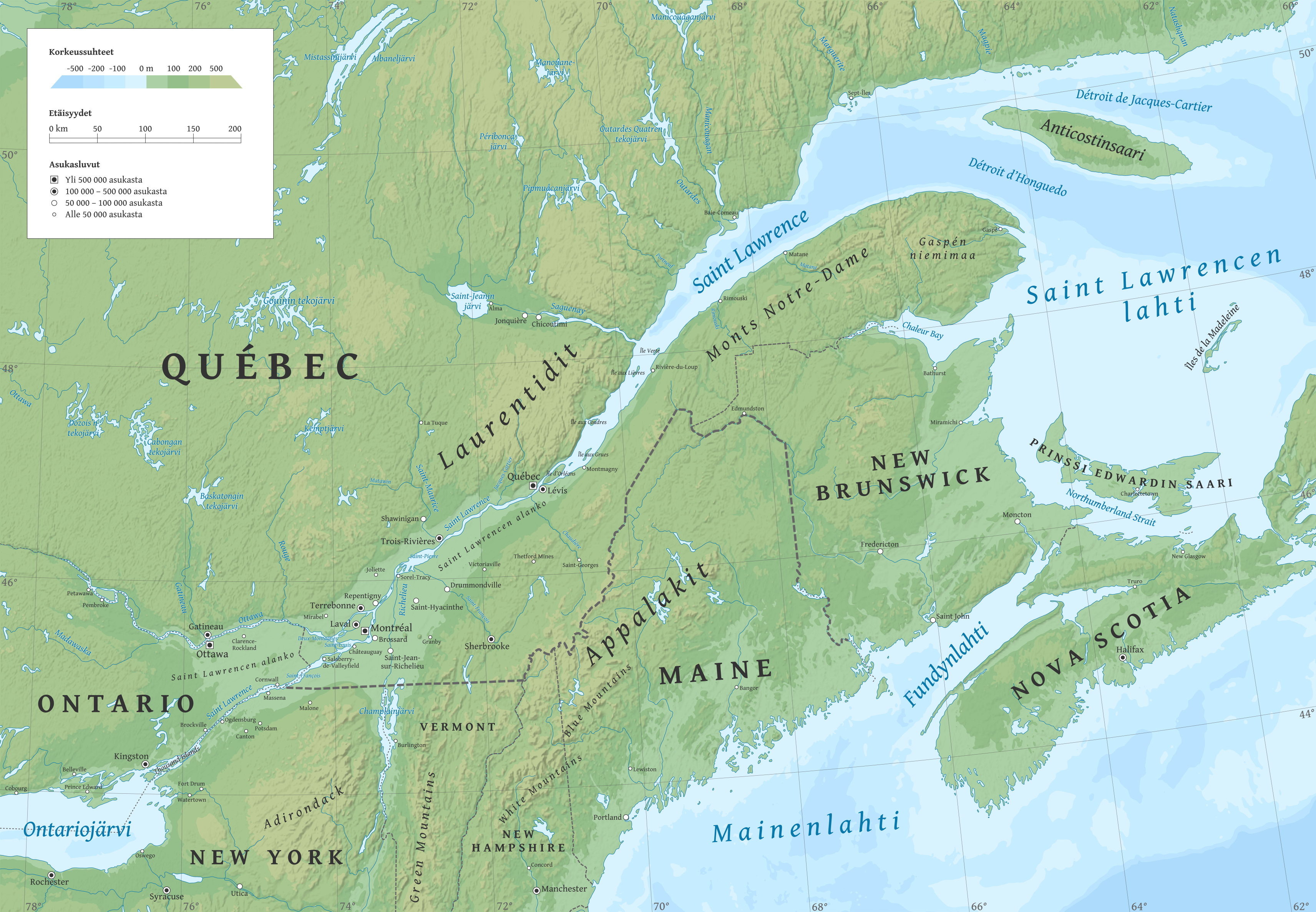 Map of the Saint Lawrence River in Finnish.